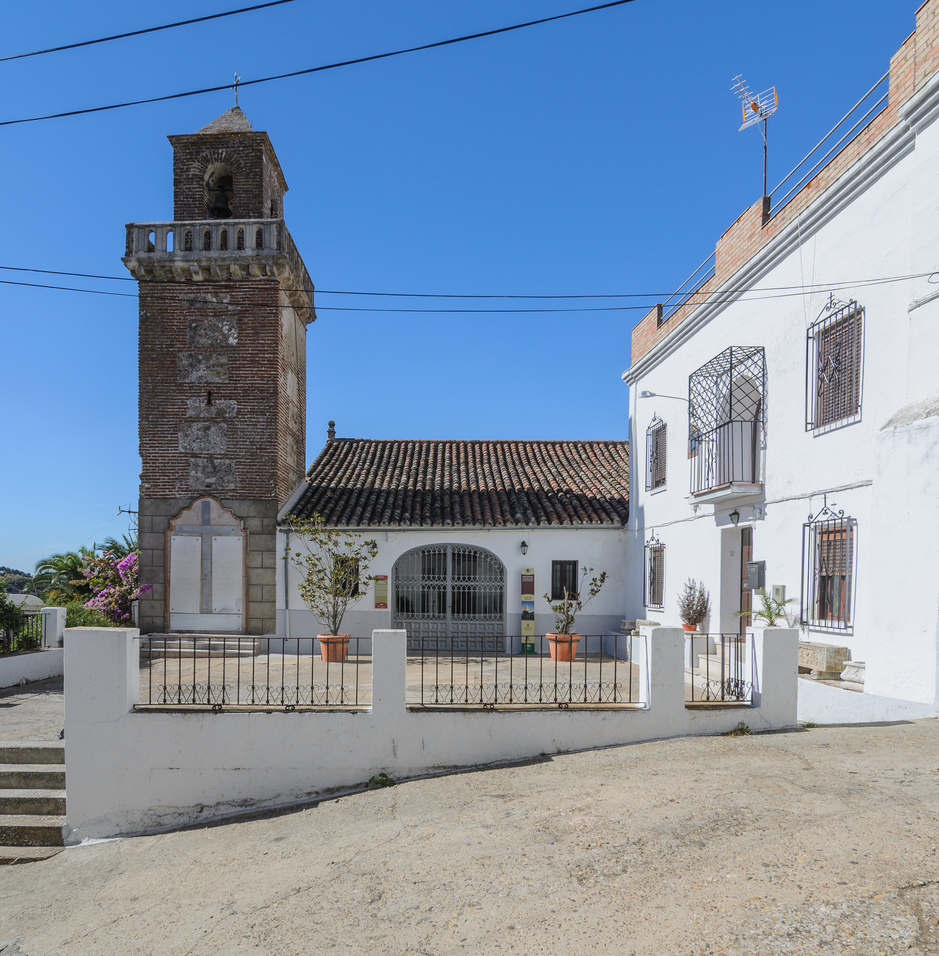 Exterior view of Iglesia Parroquial de San Antonio Abad in Obejo, Cordoba (Spain).